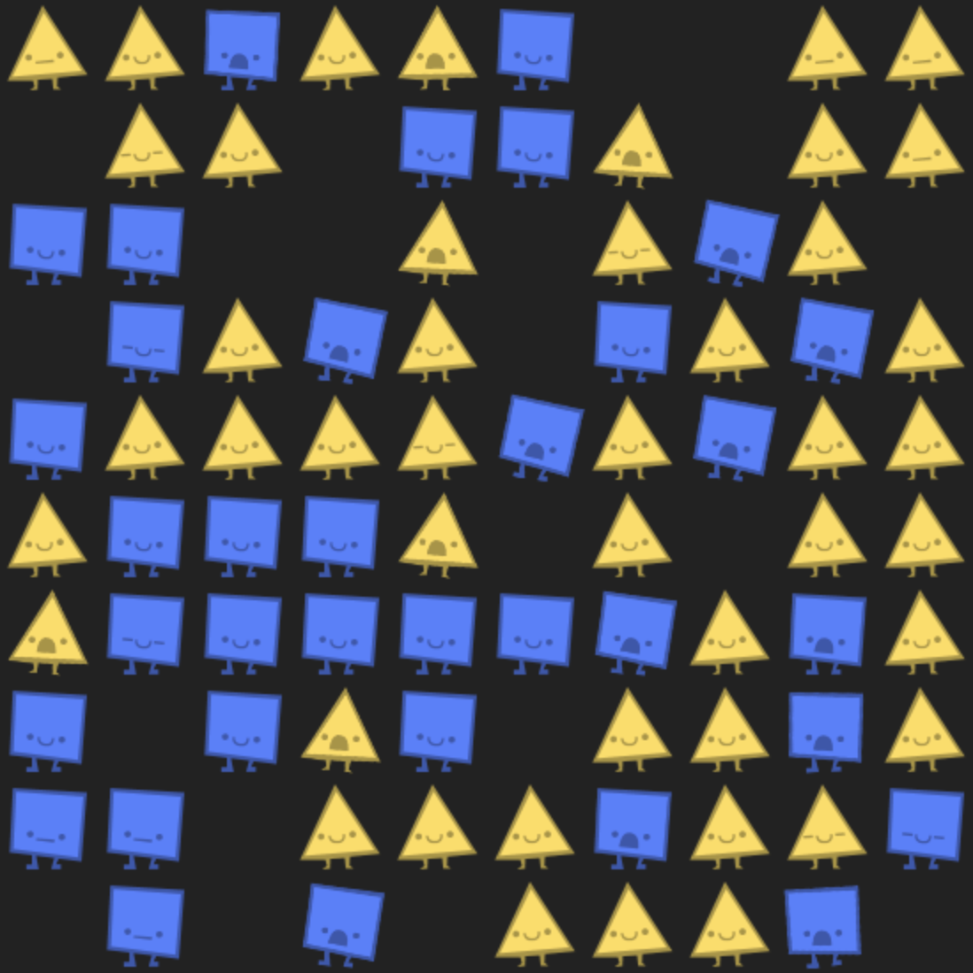 A screenshot of the first interactive board on Parable of the Polygons.